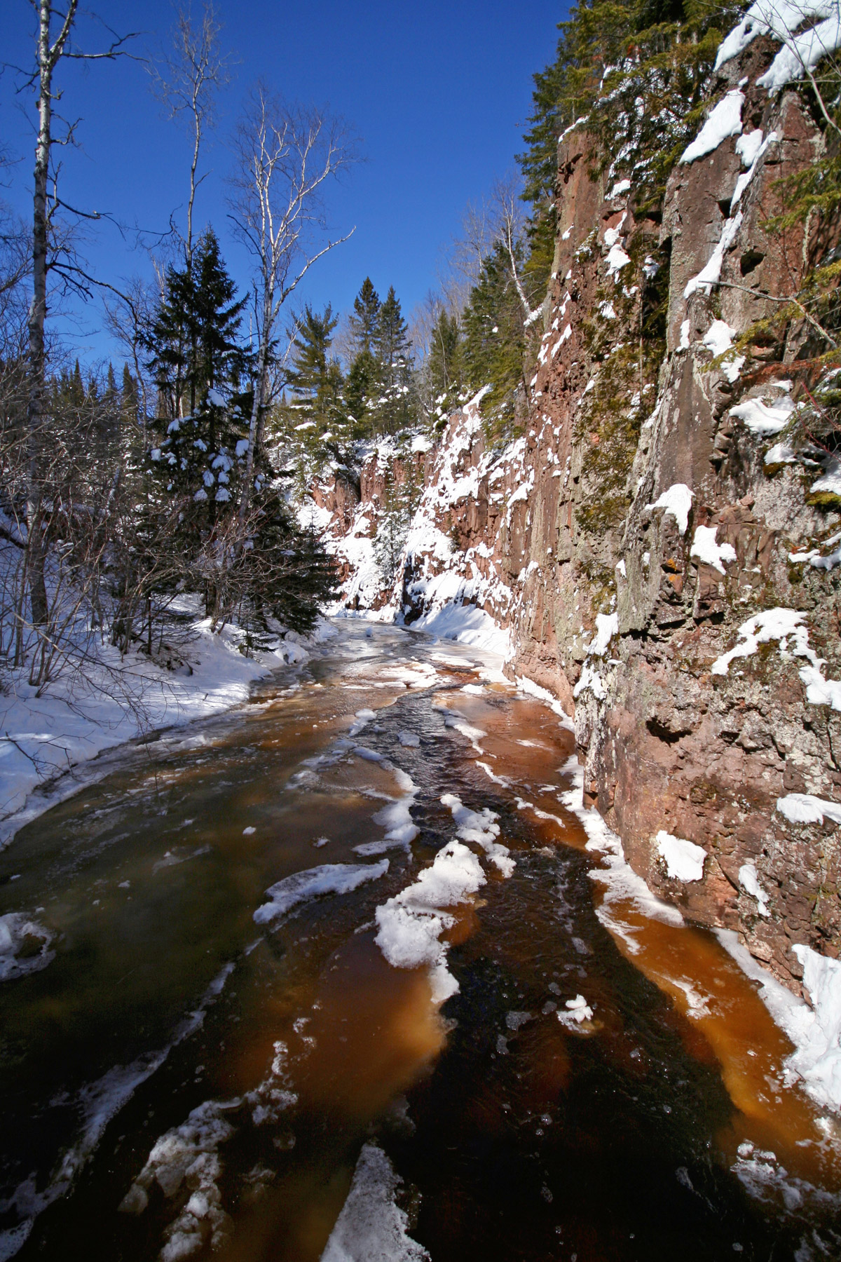 Crow Creek in winter, as seen from the Superior Hiking Trail, near Castle Danger, Minnesota, USA.